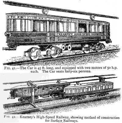 Engraving of a design for the Kearney High-Speed Railway